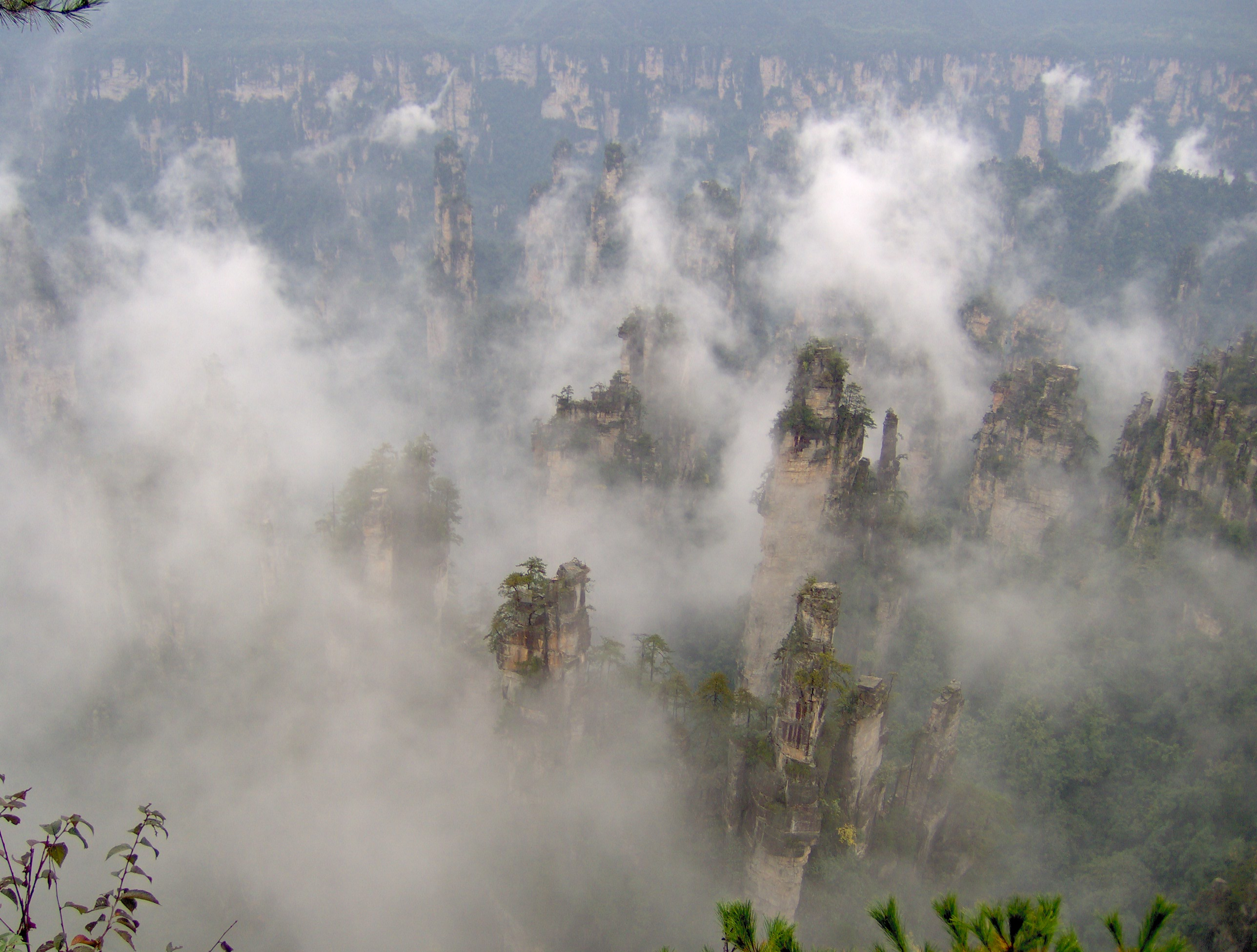 Rock formations near Zhangjiajie, Hunan province. Taken by Wei Zhou on Oct. 29, 2005